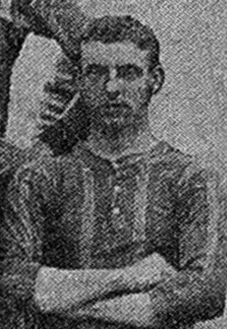 George Anderson while with Brentford FC 1910/11